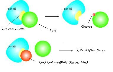 Imatinib mechanism of action - Arabic text - based on Image:Mechanism imatinib.jpg